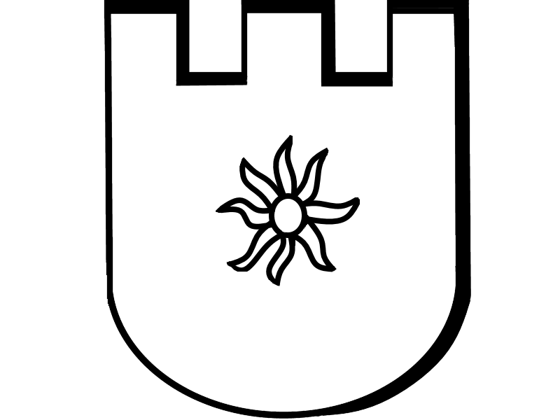 210. Infanterie Division, German Army, World War II